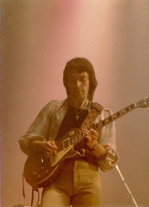 Photo of Steve Hackett performing with Genesis. January 17, 1977 in City Hall, Newcastle. Photo by John Bell, obtained from